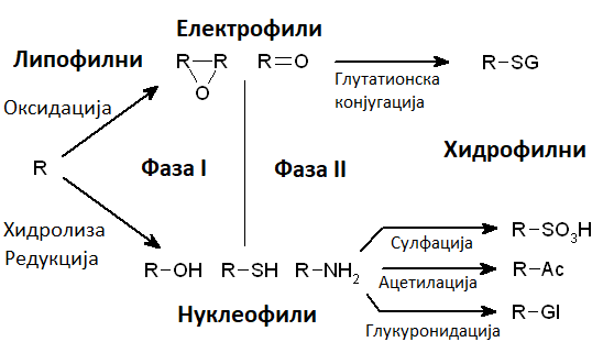 This file is Serbian translation of File:Xenobiotic metabolism.png.